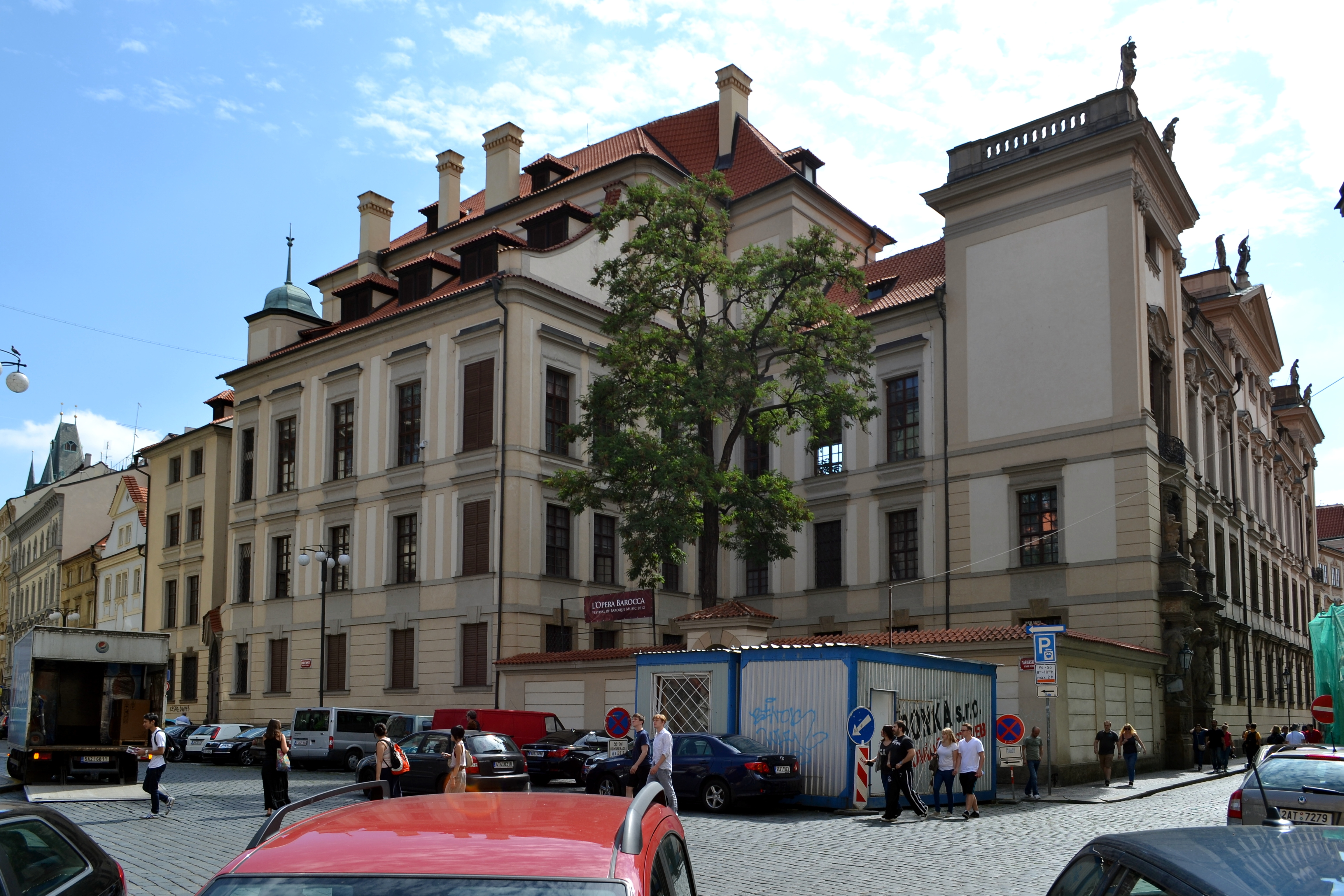 Clam-Gallas palace, Mariánské náměstí 158/3, Old Town, Prague 1, Czech Republic.